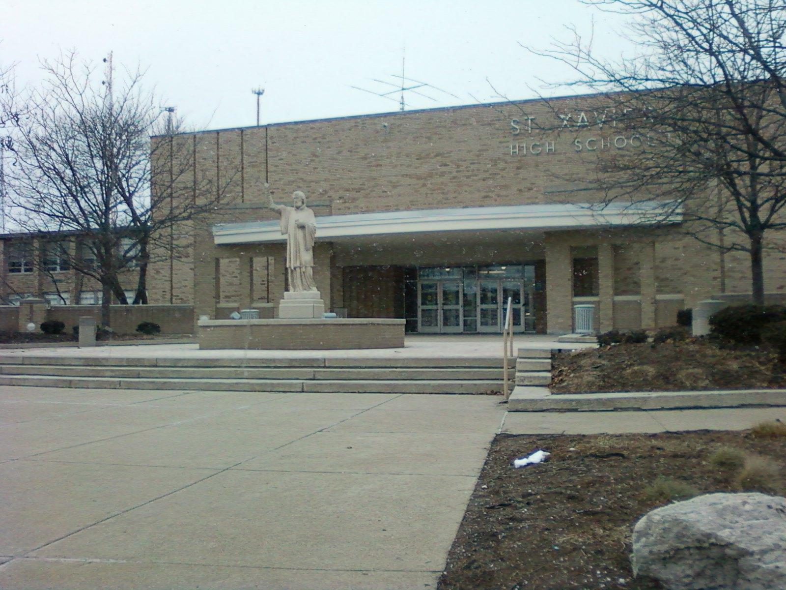 Front entrance of St. Xavier High School in Cincinnati, Ohio, United States. The statue in front was created in the 19th century.